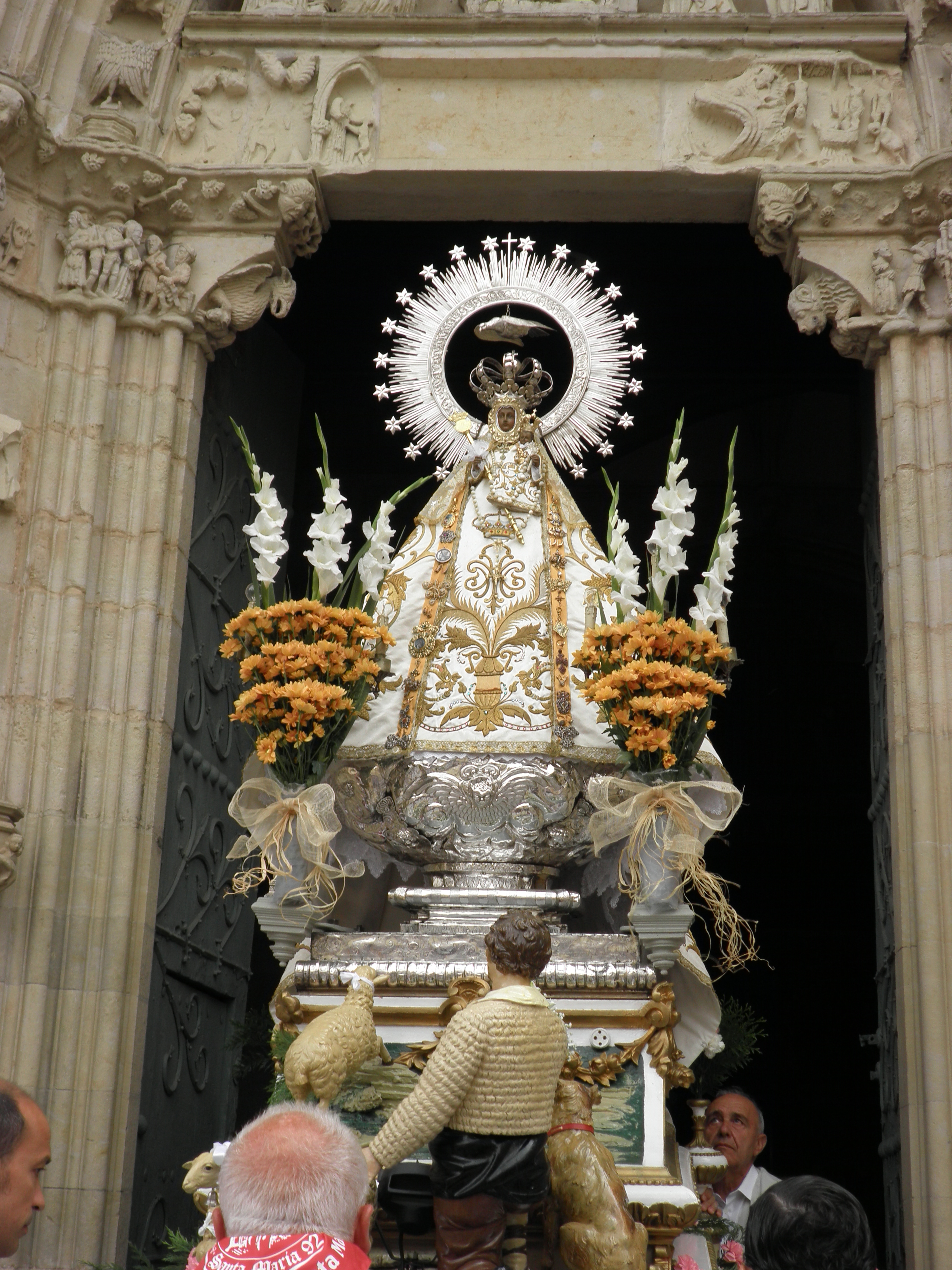 Soterraña Virgin image, in Santa María la Real de Nieva, Spain.